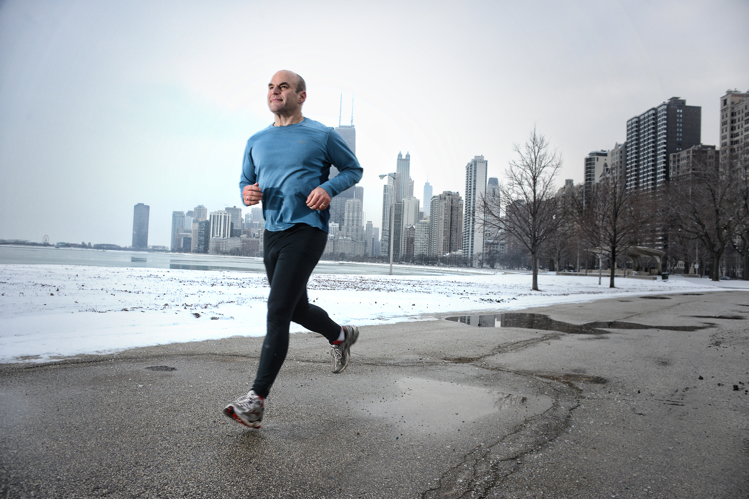 Runner in Chicago